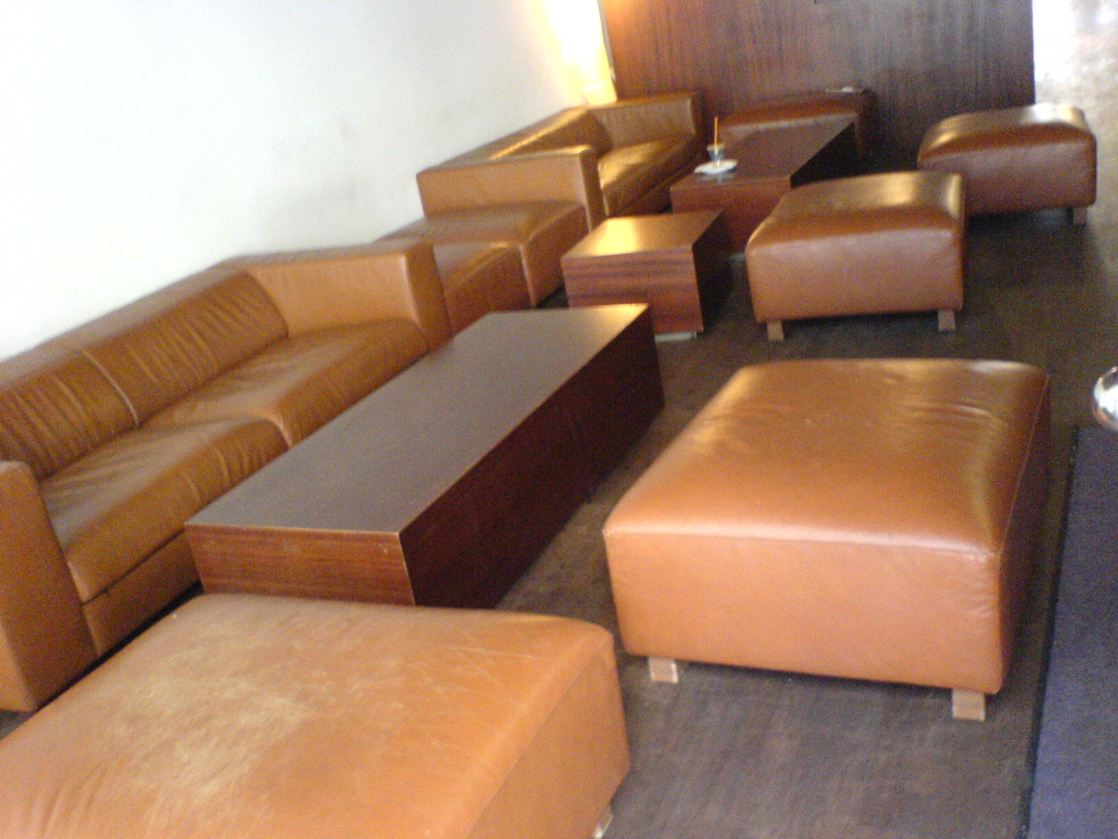 Lounge of San Francisco Coffee Company (Munich, Germany).